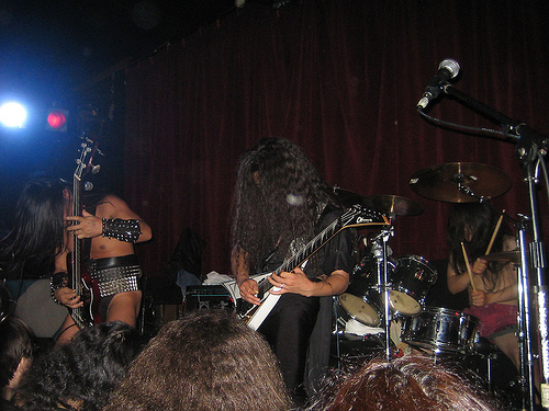 Sabbat show @ North Six, Brooklyn 2005-9-18